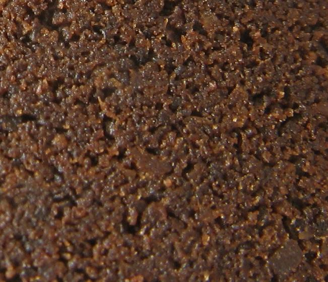 Coffee grounds, fine, wet.